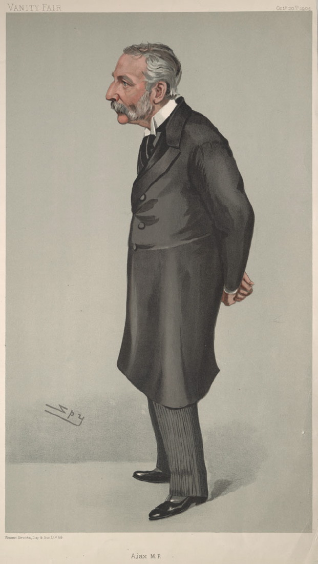 Men of the Day No.935: Caricature of Sir Richard Claverhouse Jebb. Caption reads: "Ajax MP"